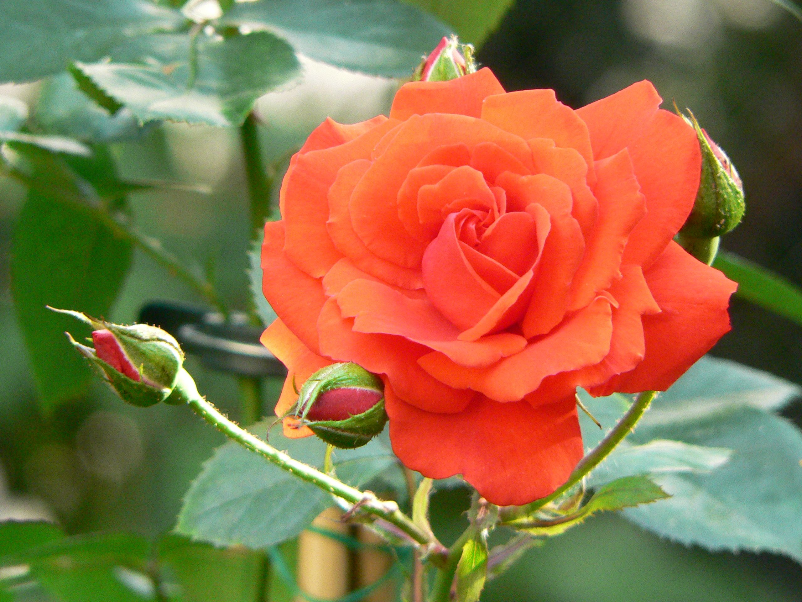 From my garden: Rosa 'Ave Maria', breeder Kordes, 1981